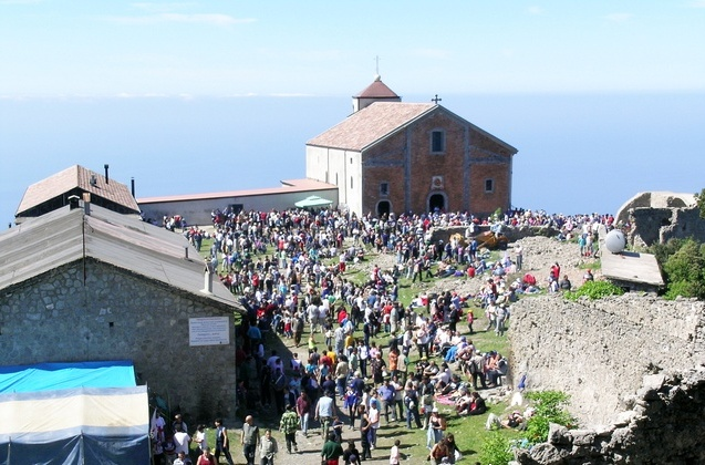 Cava de' Tirreni (SA), Monte Avvocata